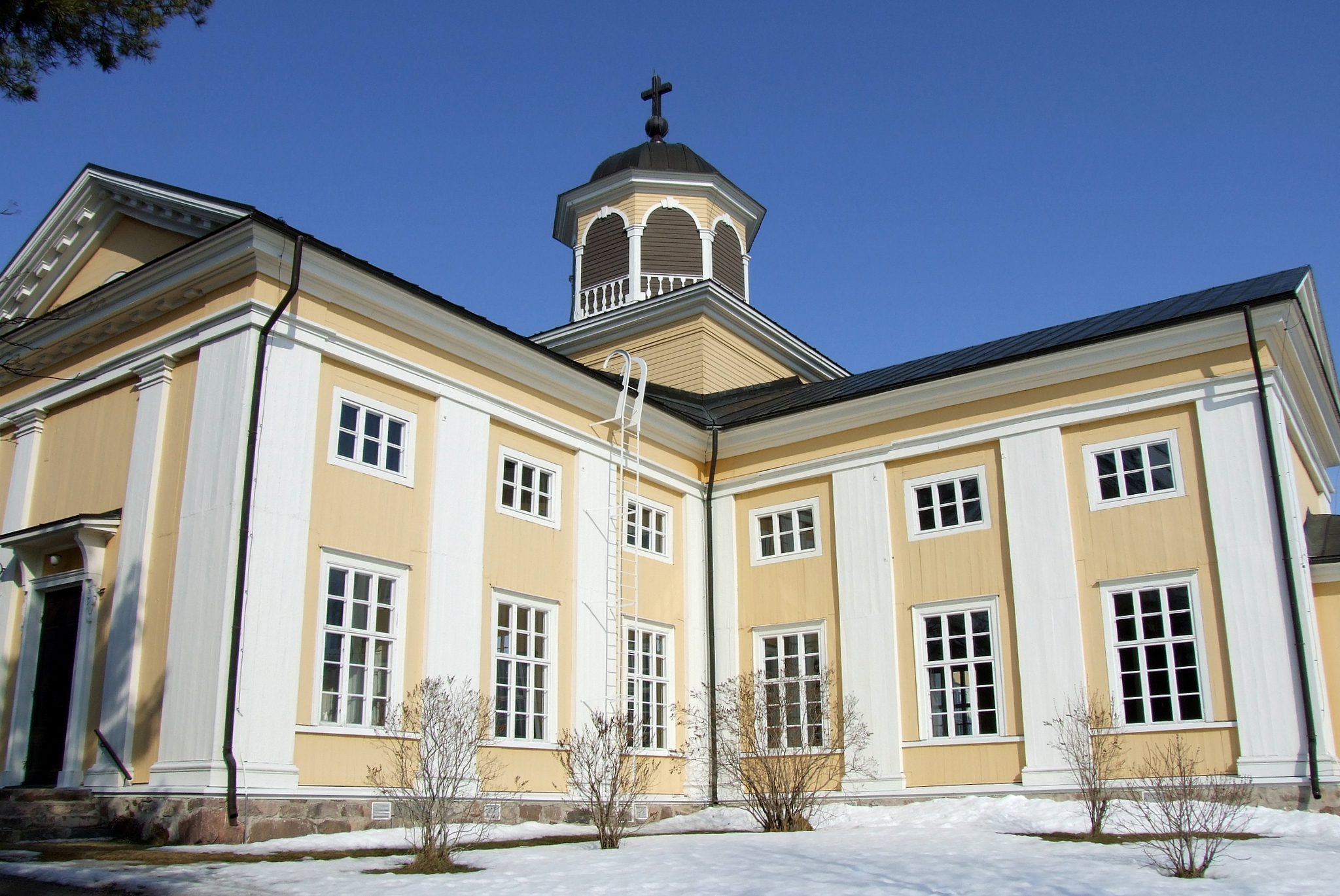 The Liminka church is an Evangelical Lutheran church in the municipality of Liminka in Northern Finland. The building was designed by A. F. Granstedt and A. W. Arppe and it was completed in 1826.